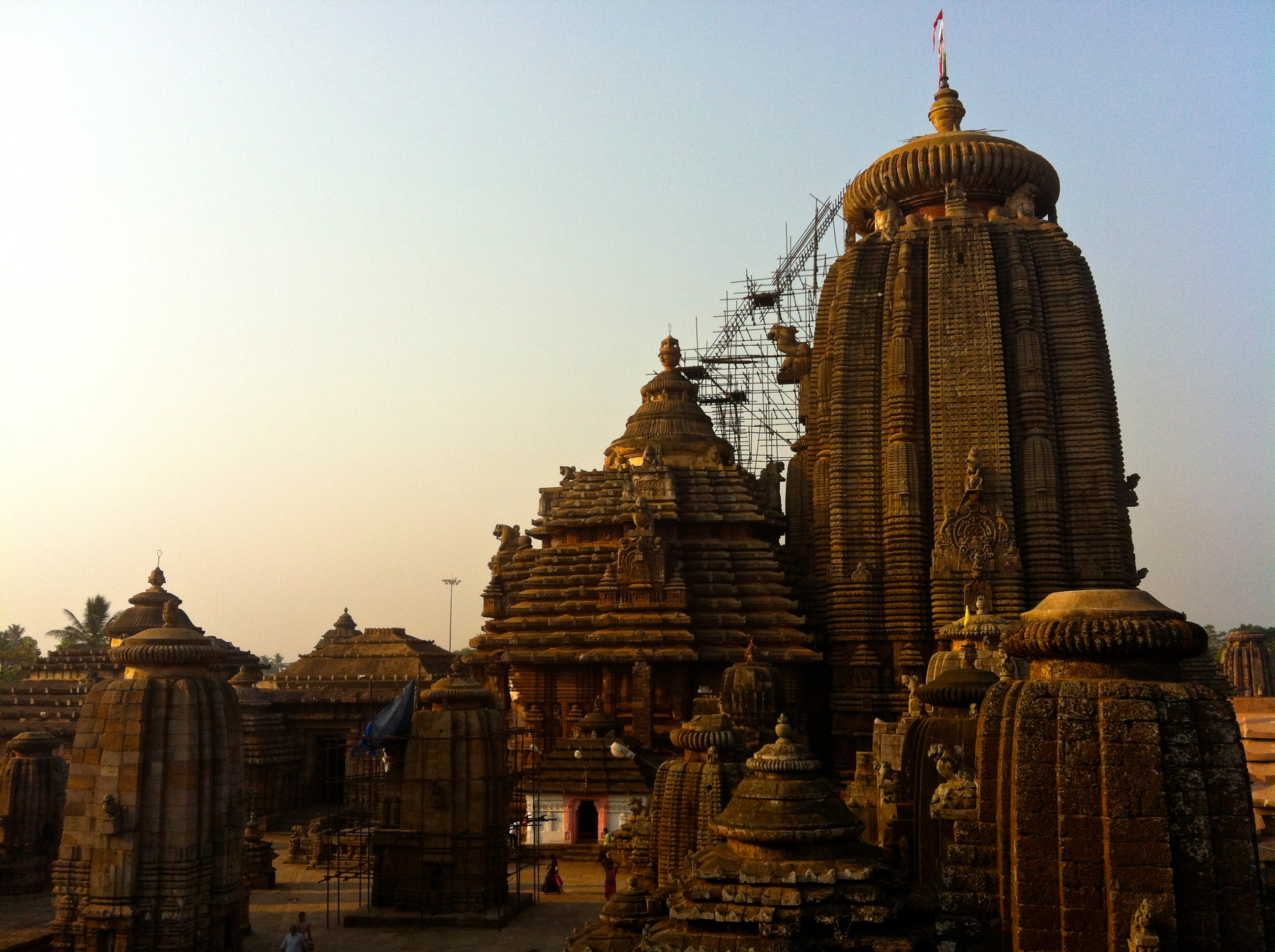 Lingaraja temple, Bhubaneswar, Odisha, India.